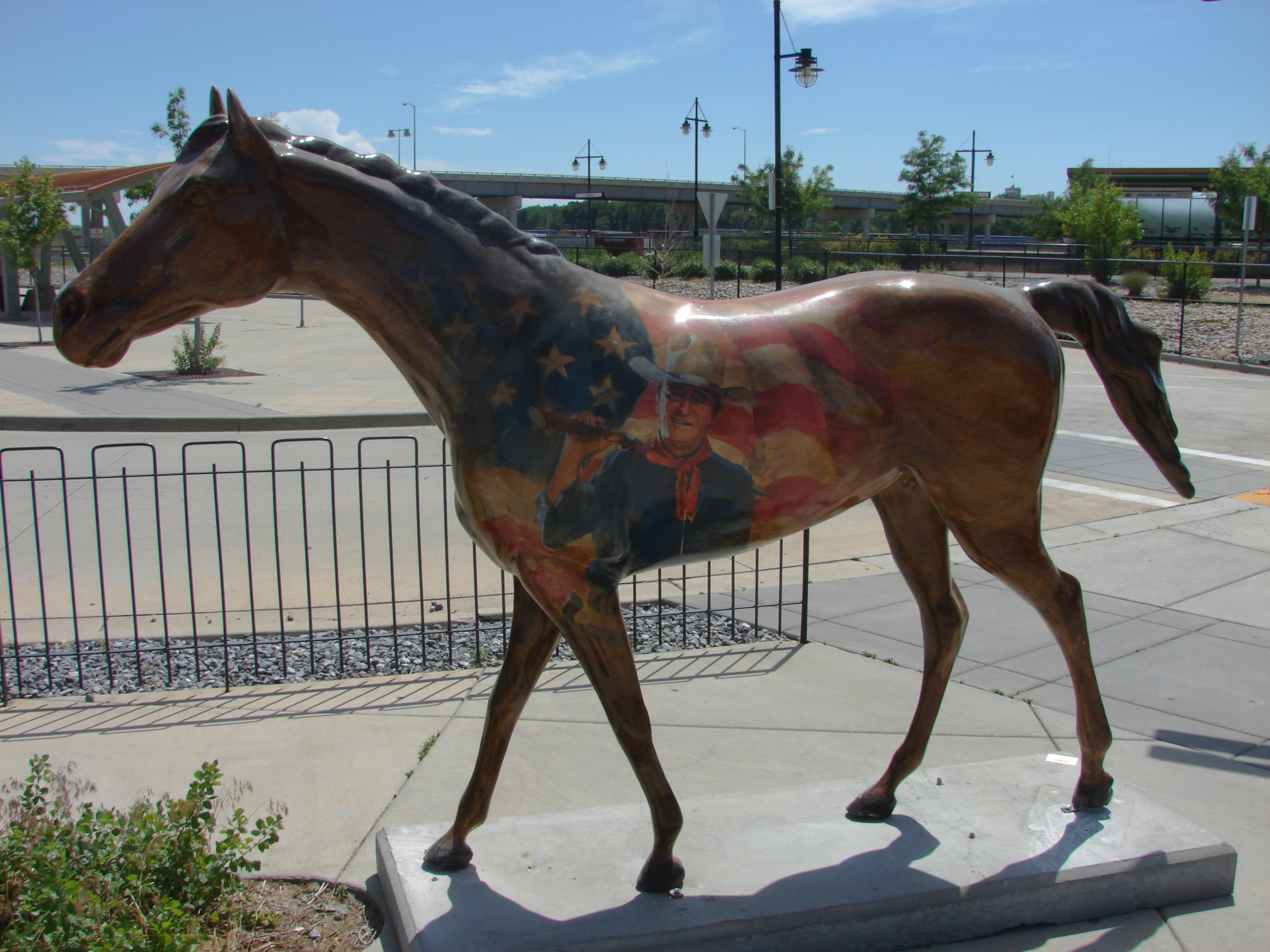 A patriotic painted horse, with image of John Wayne, in front of The Zephyr Grill at the Ogden Intermodal Transit Center